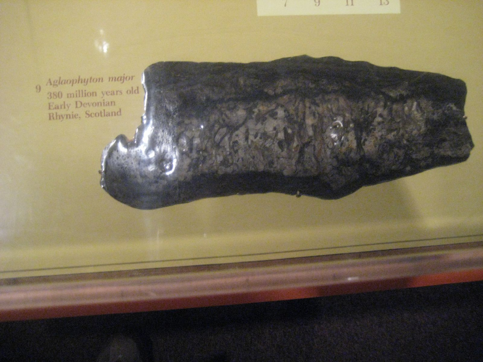 Aglaophyton major 380 million years old, Early Devonian, Scotland. On display in the National Museum of Natural History, Washington, DC